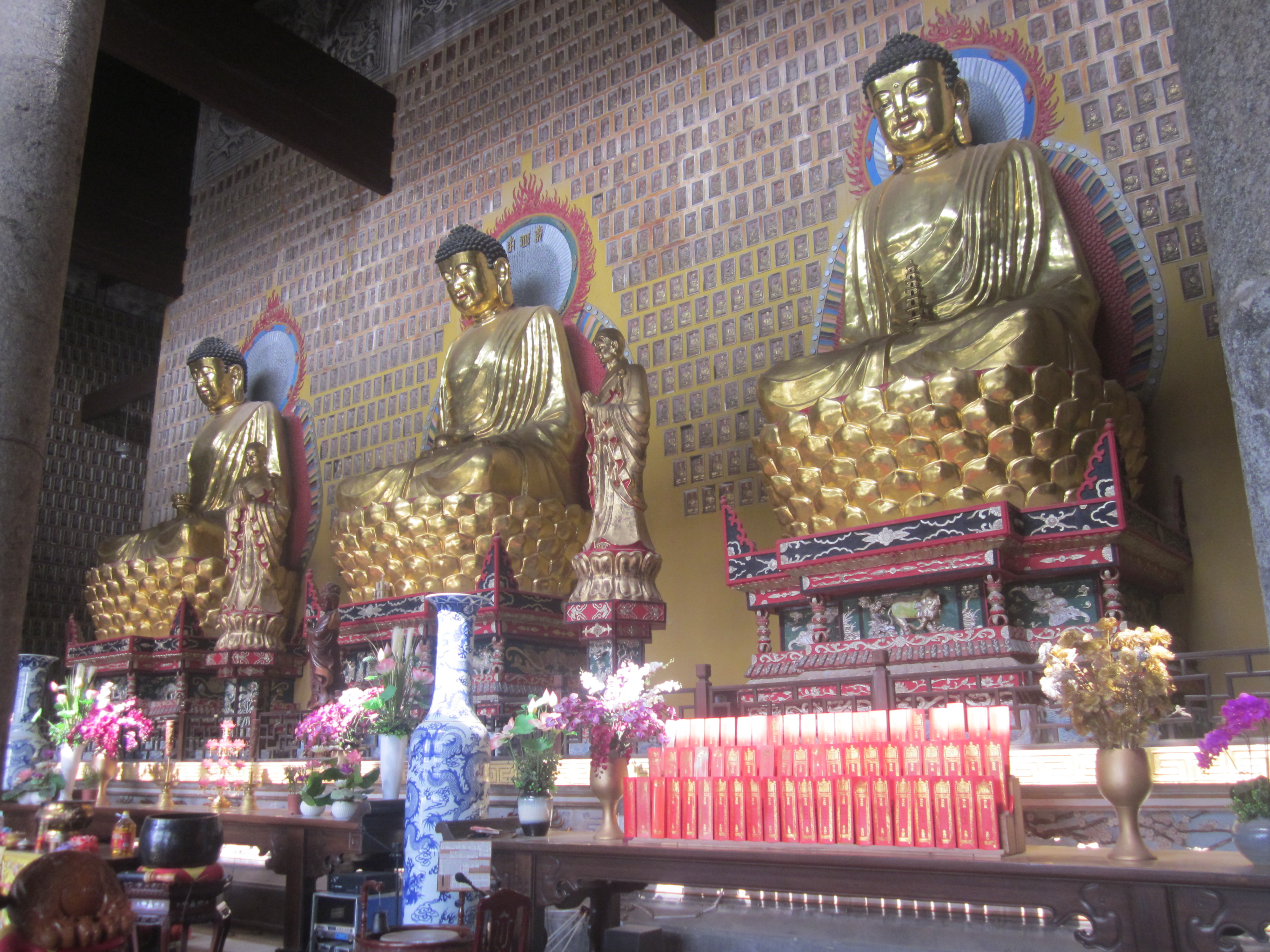 The statues of Bhaisajyaguru (left), Gautama Buddha (meddle) and Amitābha (right) at Multi-Buddha Hall (Wanfo Hall) of Miyin Temple.